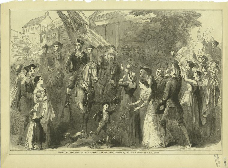 Evacuation Day - Washington's entrance into New York, November 25, 1783, Evacuation Day . Creator: Emmet, Thomas Addis, 1828-1919 -- Collector Specific Material Type: Prints Standard Reference: EM11071 Source: Emmet Collection of Manuscripts Etc. Relating to American History. / Booth's History of New York. / Volume 4. Source Description: 130 prints : etching, engraving, mezzotint, lithograph, wood engraving, some col. ; 34.8 x 51 cm. or smaller.